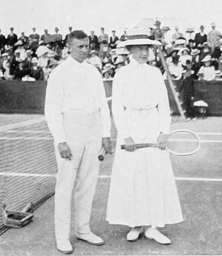 Dorothea Köring and Heinrich Schomburgk, German tennis players, gold medal winner in tennis mixed of the 1912 Olympics.